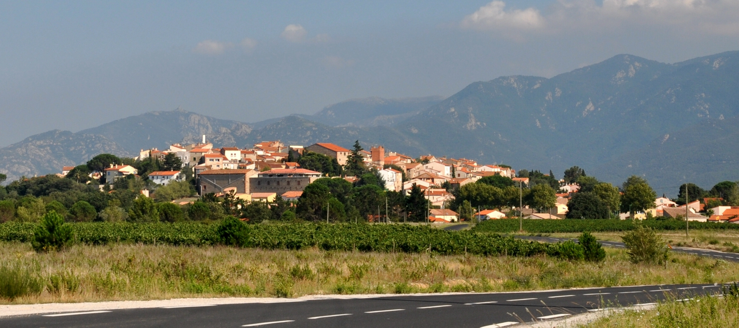 General view of Banyuls-dels-Aspres, the Albera Massif in the background.